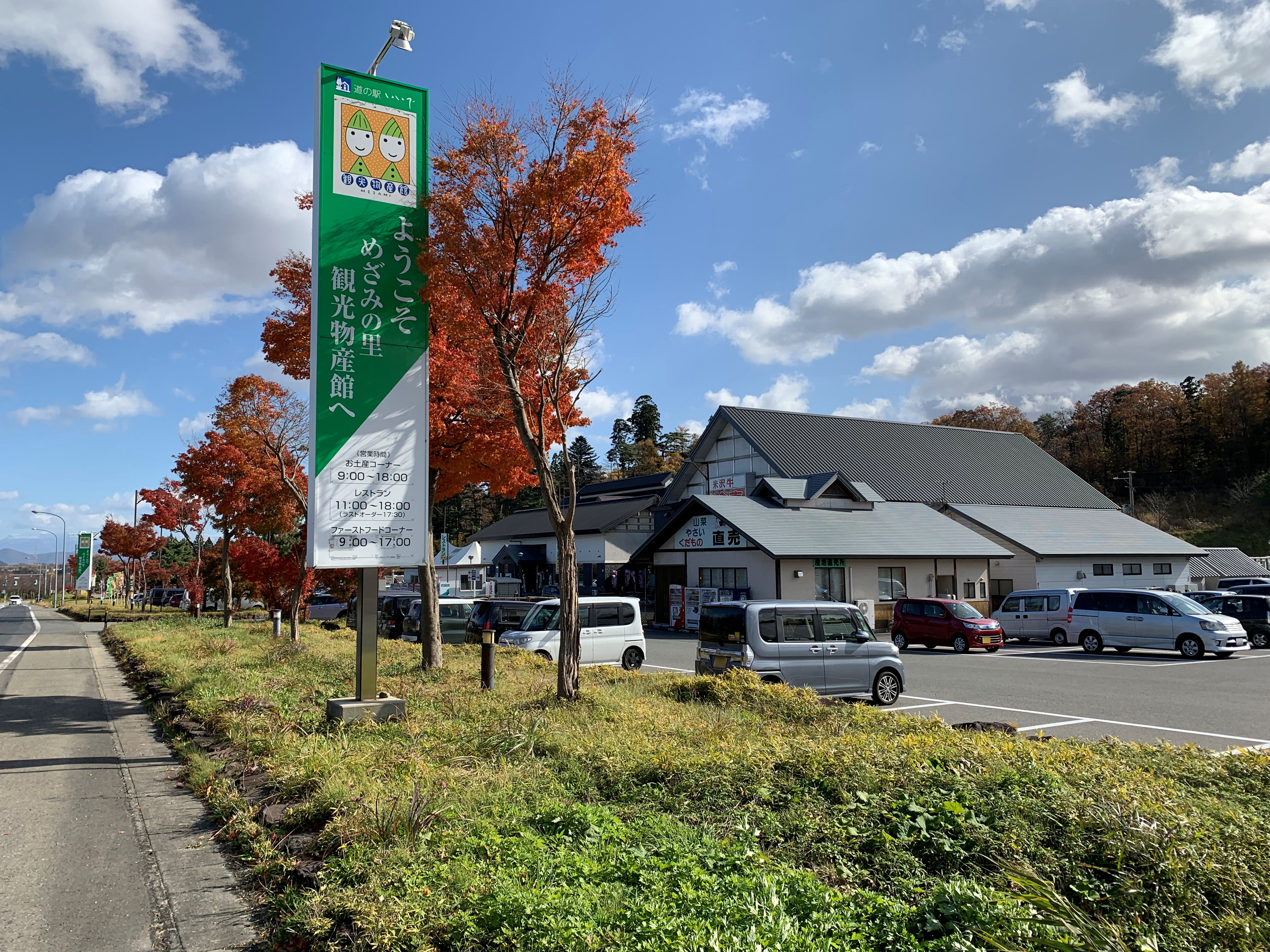 Iide, Michi no Eki (Roadside Station), Yamagata, Japan. Took photo in November 2019.